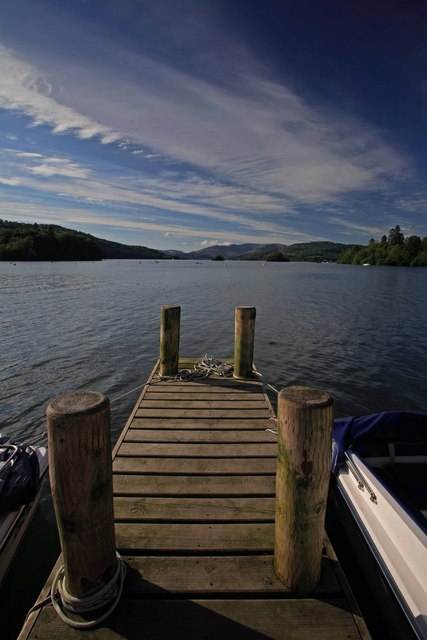 Lake Windermere